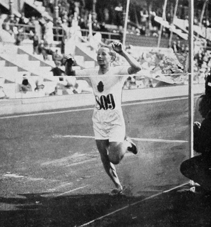 Hannes Kolehmainen winning the 10000 metre final at the 1912 Summer Olympics with George Goulding in the middle.